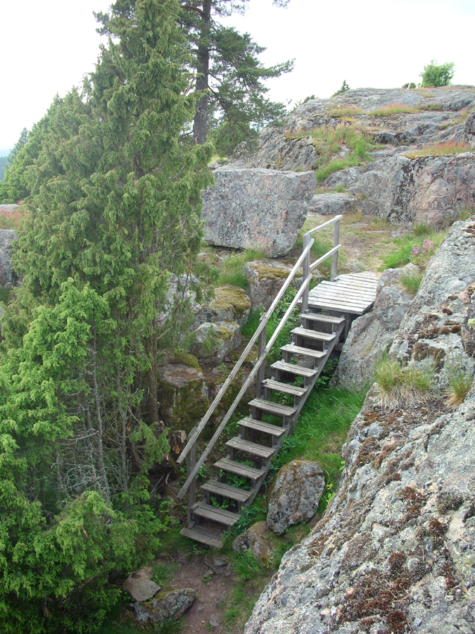 Huttala hill fort in Piikkiö, Finland